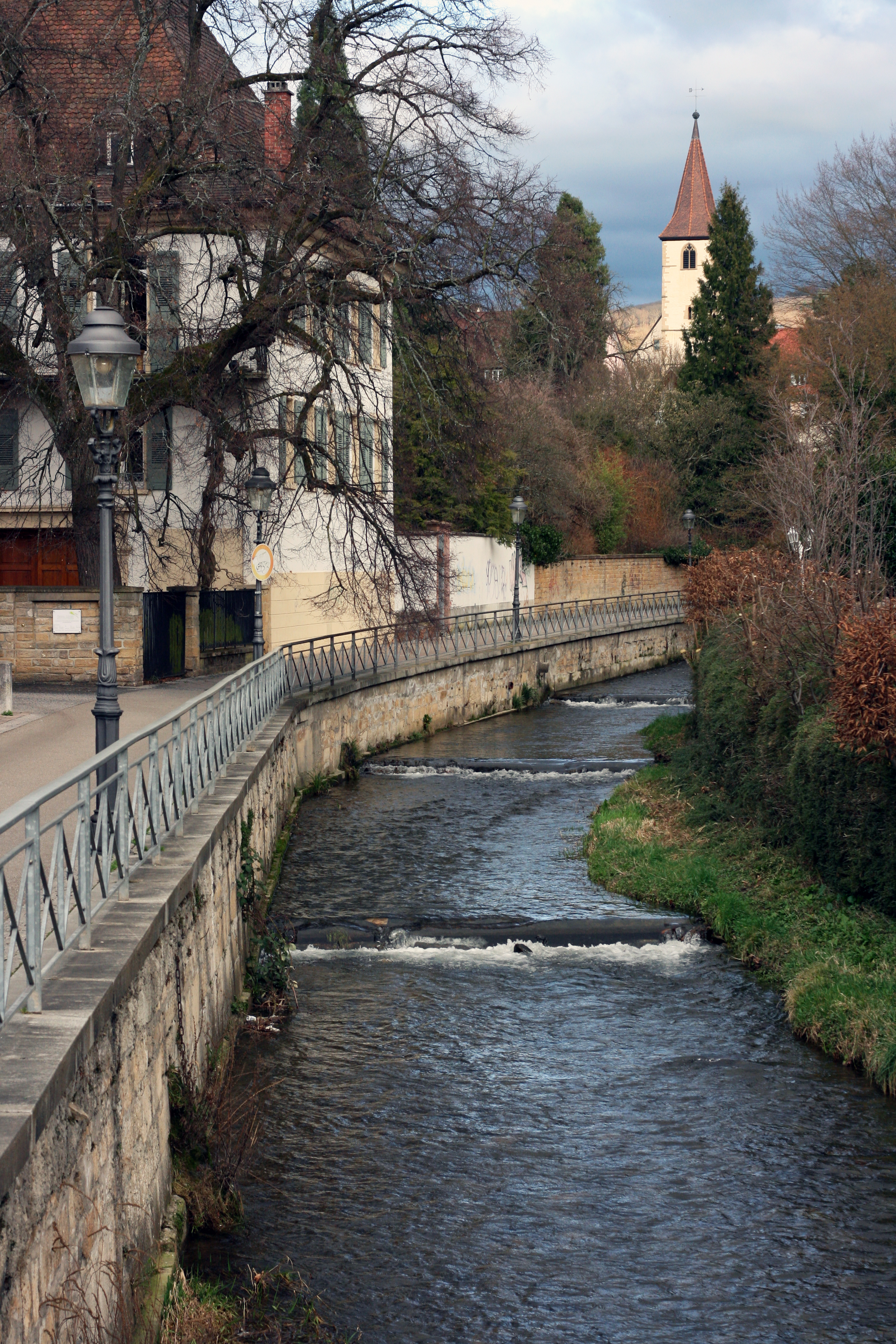 Klemmbach in Müllheim with the tower of the Martinskirche in the background